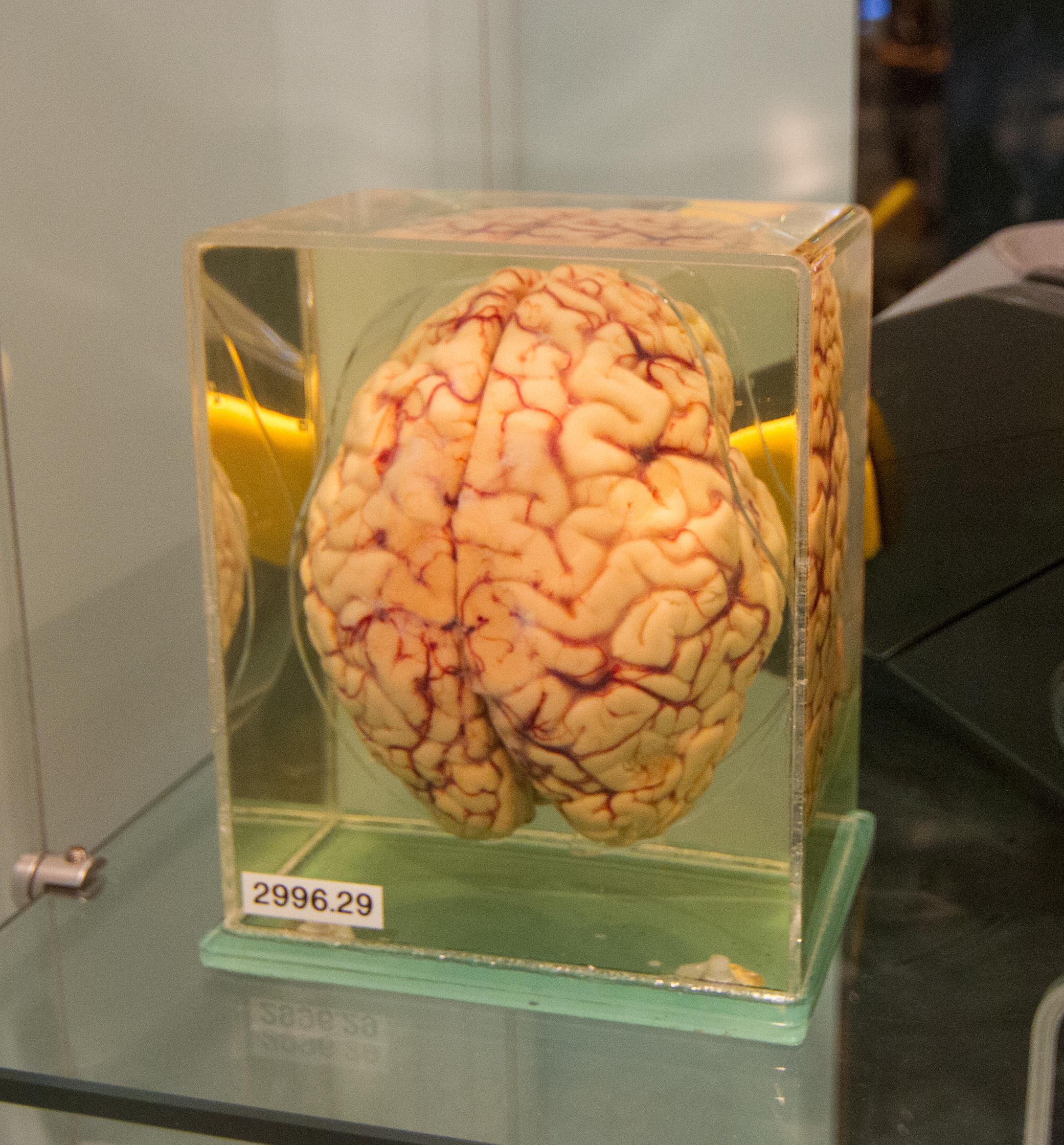 Human brain preserved in formaldehyde